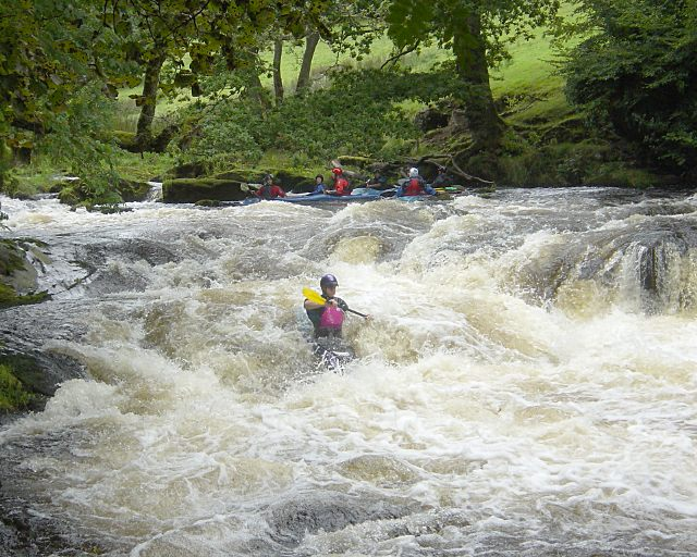 Bala Mill Falls The Lower Tryweryn runs from the whitewater centre down to the main road bridge in Bala village and is mostly grade 2 to 3. Since the river is dam-released, it is often possible when other rivers have no water, and you can phone in advance to check the release level (if any). Under the Welsh Canoeing Association's new access policy, there is no longer any charge for using the river. The one hard rapid, Bala Mill Falls, usually given grade 4, is towards the end of the run, and is often portaged river right where a permissive path runs next to the leat. This photo was taken from the end of the portage (when I was new enough to kayaking to choose not to run the falls). The usual approach is to break out river left above the falls, from where you can get an idea of the line, but breaking in and choosing the right spot is the most difficult part. The paddler shown has got the right line and is just blasting through the bottom stopper. Offline, the first stopper or a hidden rock may slow the boat down, then this bottom stopper has a tendency to backloop boats, especially shorter playboats. Below the aerated pool, there is a relatively calm pool in which to collect swimmers and equipment.